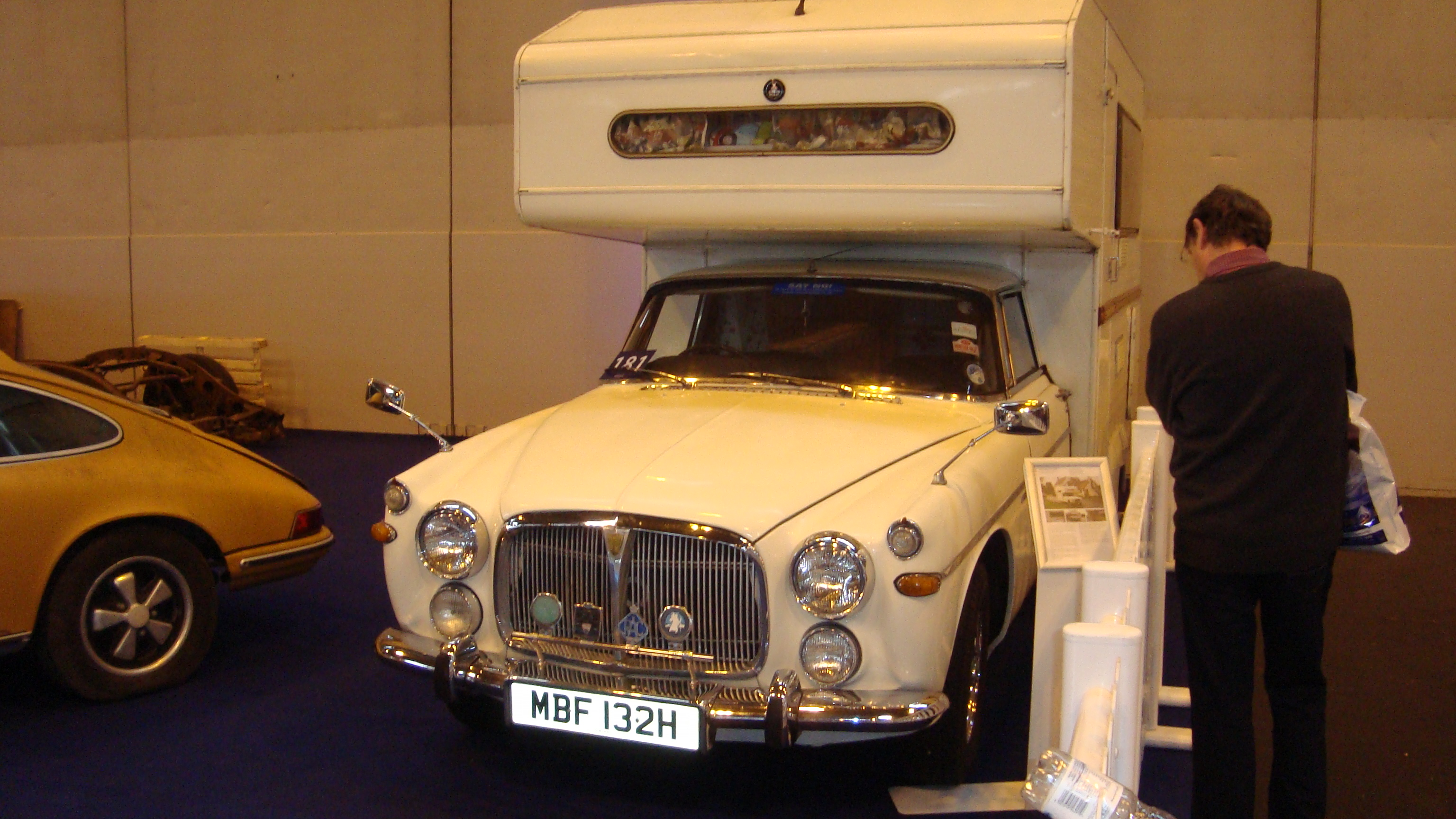 1969 Rover P5 Motorhome